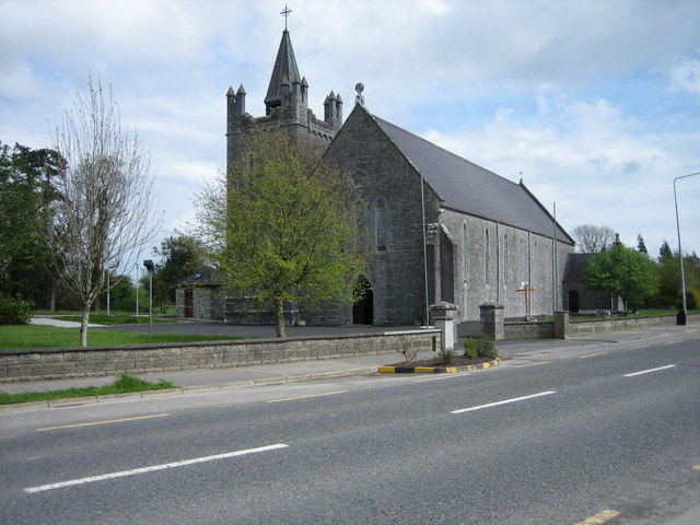 Catholic Church, Knockcroghery. Seen across the N61.